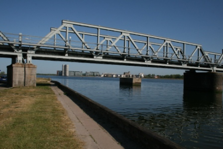 The train bridge and Bryggen